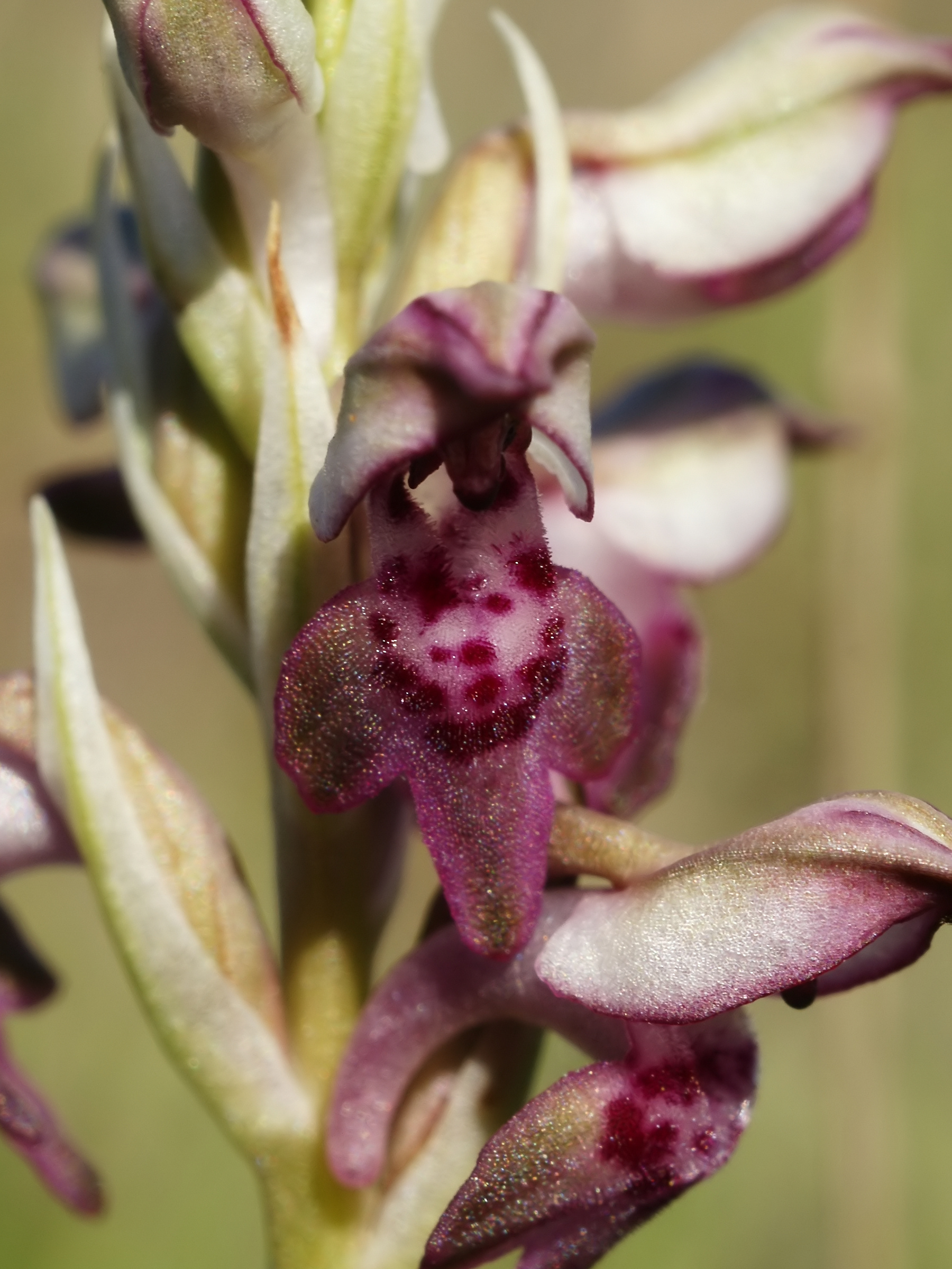 Bug Orchid. Approximate co-ordinates: plant located within 5 km from San Giovanni di Sinis, Sardinia, Italy